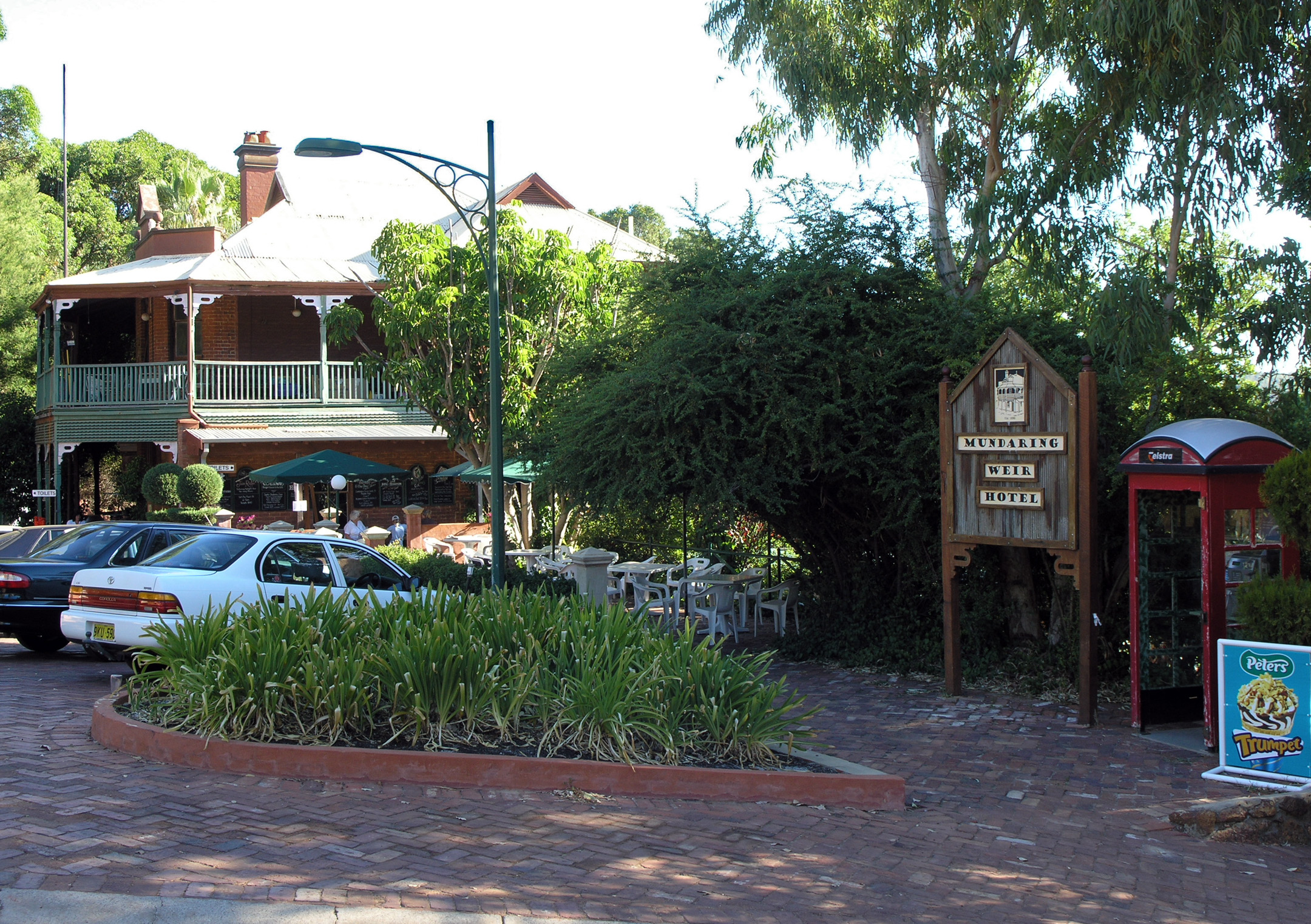 Mundaring Weir Hotel, Mundaring Weir in the Darling Range, Perth, WA. Taken by me SeanMack.